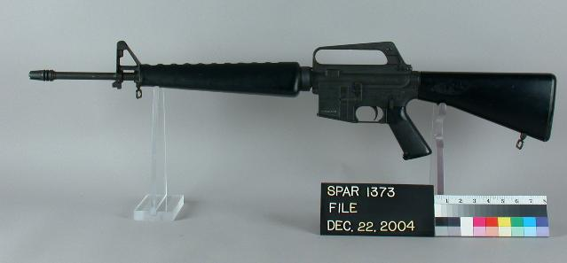 Colt Armalite AR-15 Model 02 Left Side